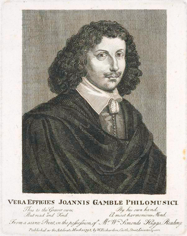 Portrait of John Gamble as published in 1795 by W. Richardson, Castle Street, Leicester Square, London